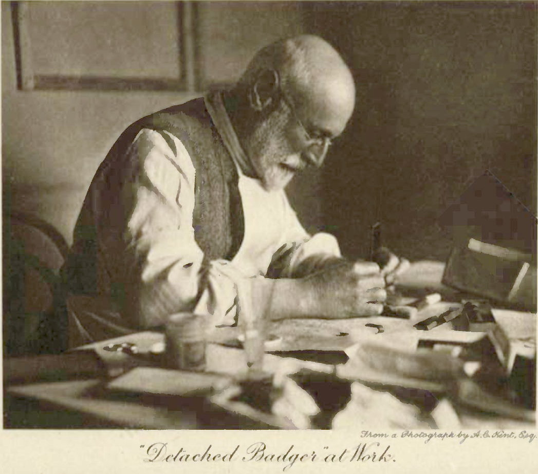 Frontpiece showing Frederic M. Halford tying flies from The Dry Fly Fisherman's Entomology Mosley, 1921